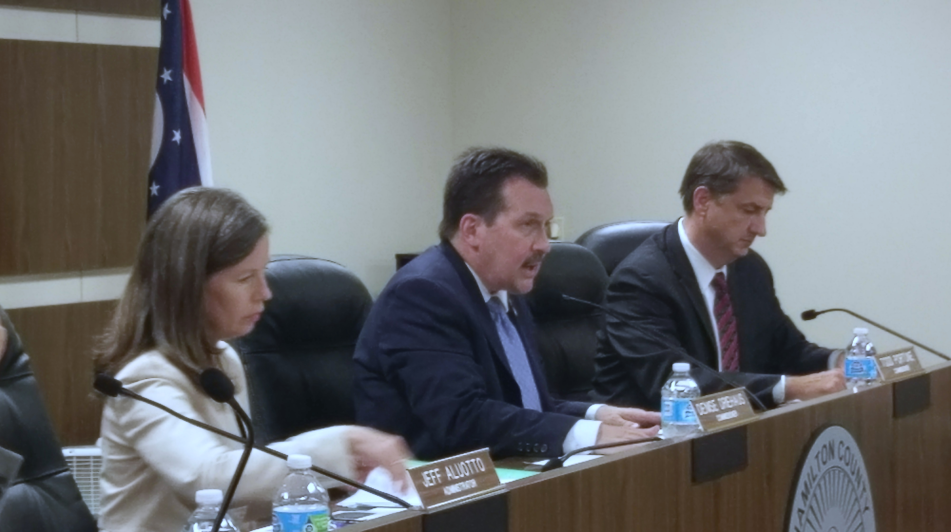 Denise Driehaus, Todd Portune, Chris Monzel Taken at a public hearing held by the Hamilton County Commissioners on September 27, 2017 at the Hamilton County Board of Elections office (4700 Smith Rd, Cincinnati, OH 45212). The purpose of the hearing was for the county to collect feedback on priorities for "big box"/big spending projects. A large group of FC Cincinnati fans attended to advocate for funding for a new stadium for the team. More info: Cincinnati Business Courier article, WCPO article.